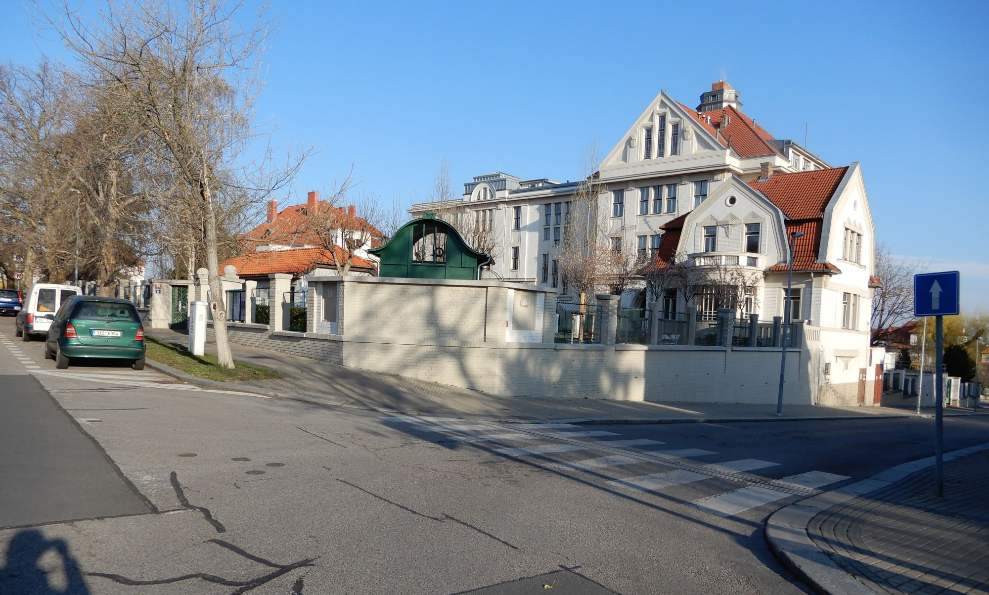 Cukrovarnická street Num. 112, corner of the street U laboratoře, Prague 6- Střešovice